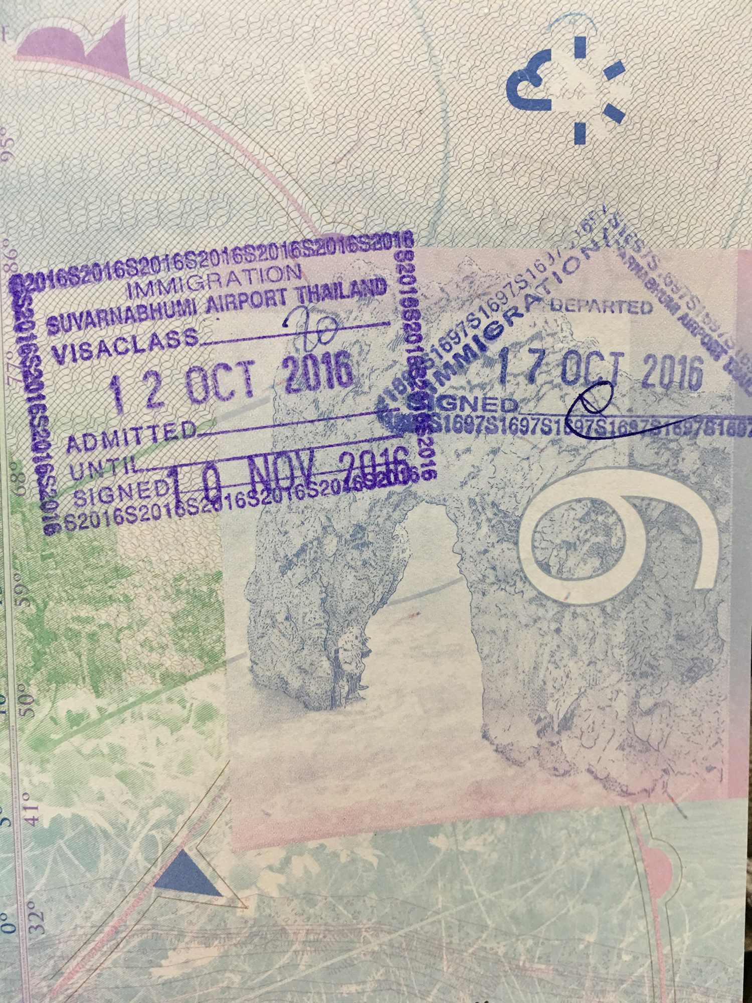 Thailand Suvarnabhumi Airport Passport Stamp